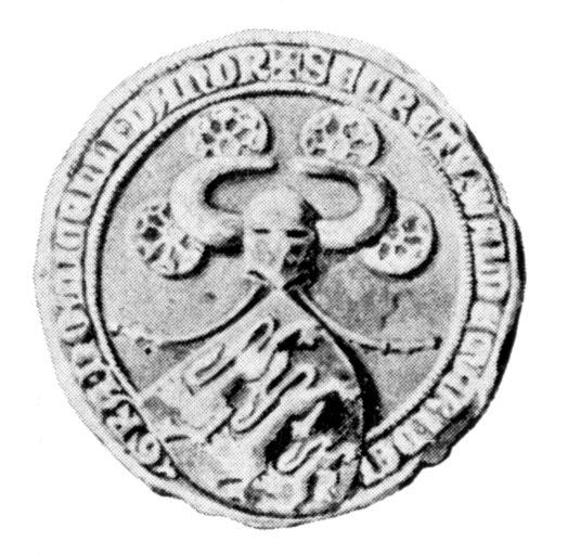 Early seal of Danish King Valdemar Atterdag. This seal is known from documents dating 1340-1345. The title seems to incidate that he used the seal before becoming king, i.e. as a young squire.